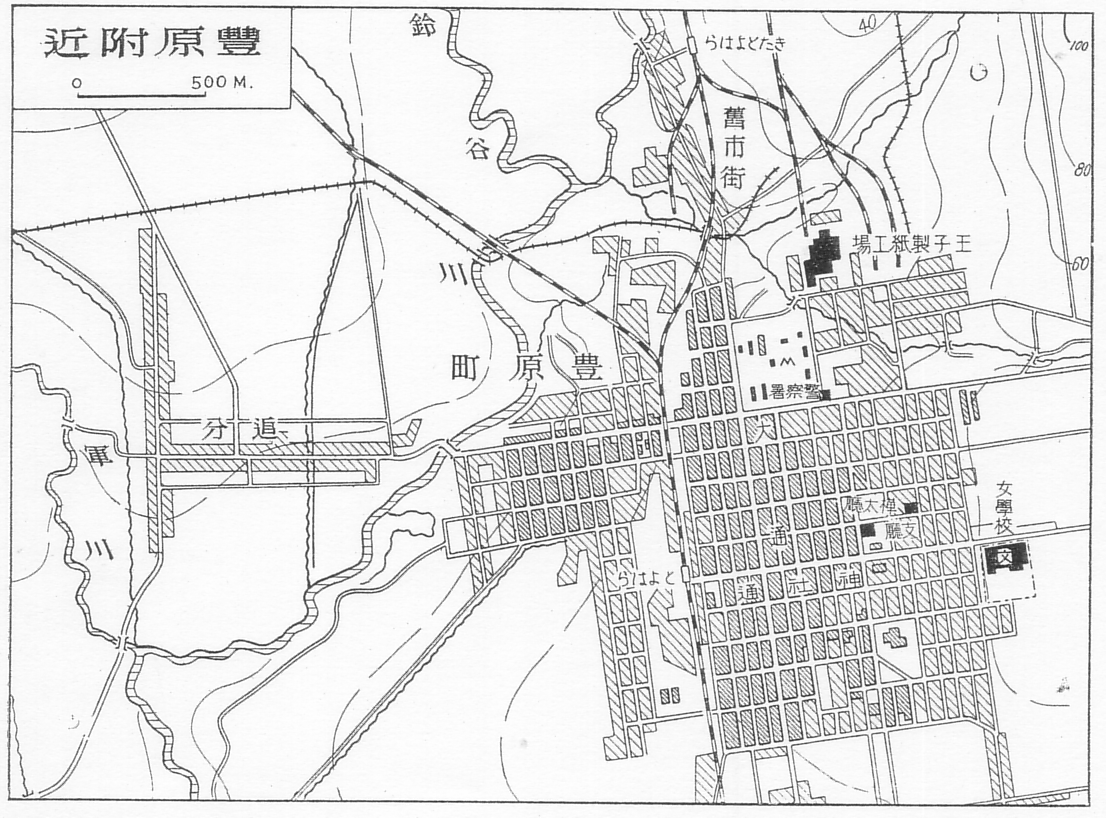 Toyohara(present-day "Yuzhno-Sakhalinsk") map circa 1930